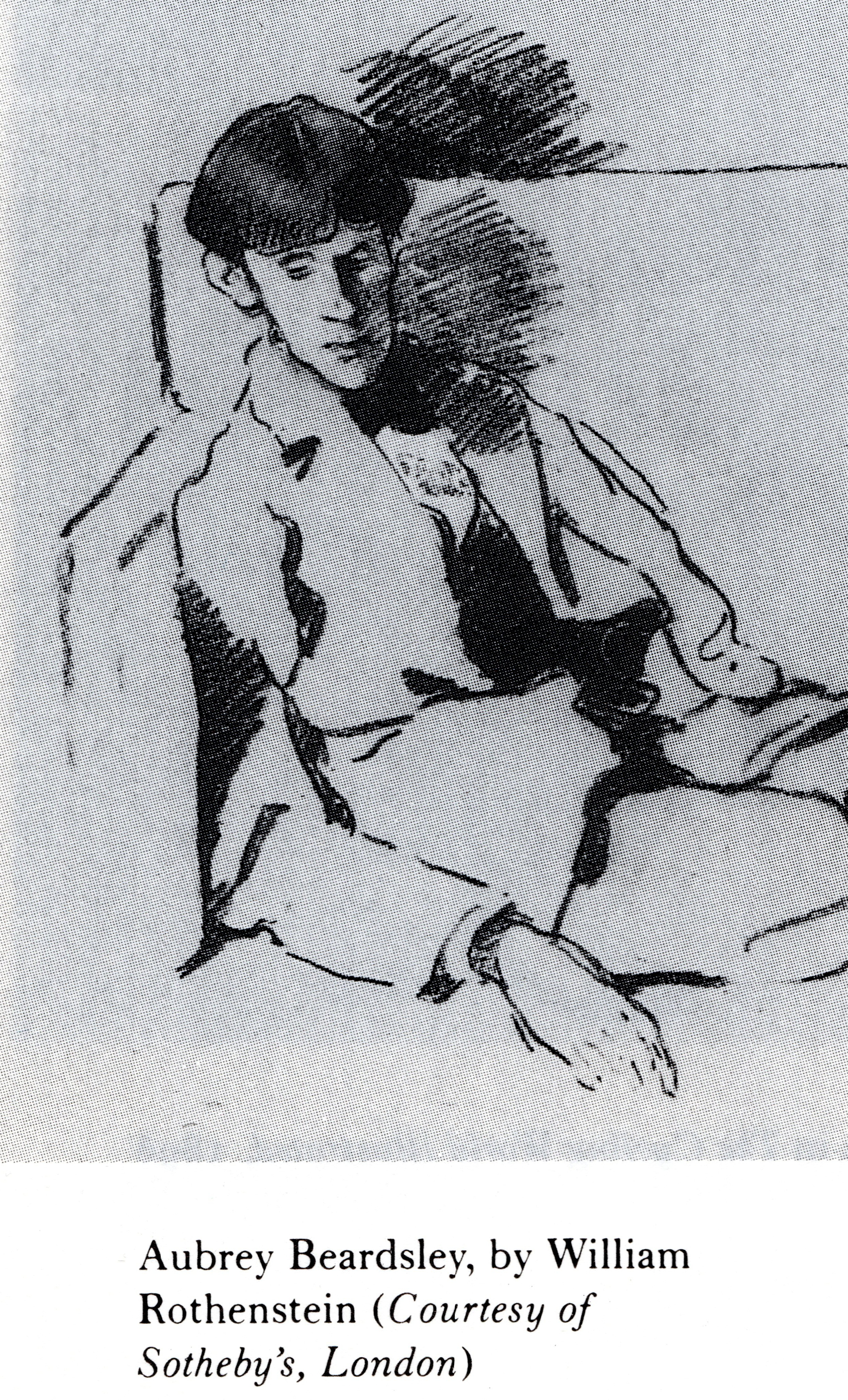 Aubrey Vincent Beardsley by William Rothstein